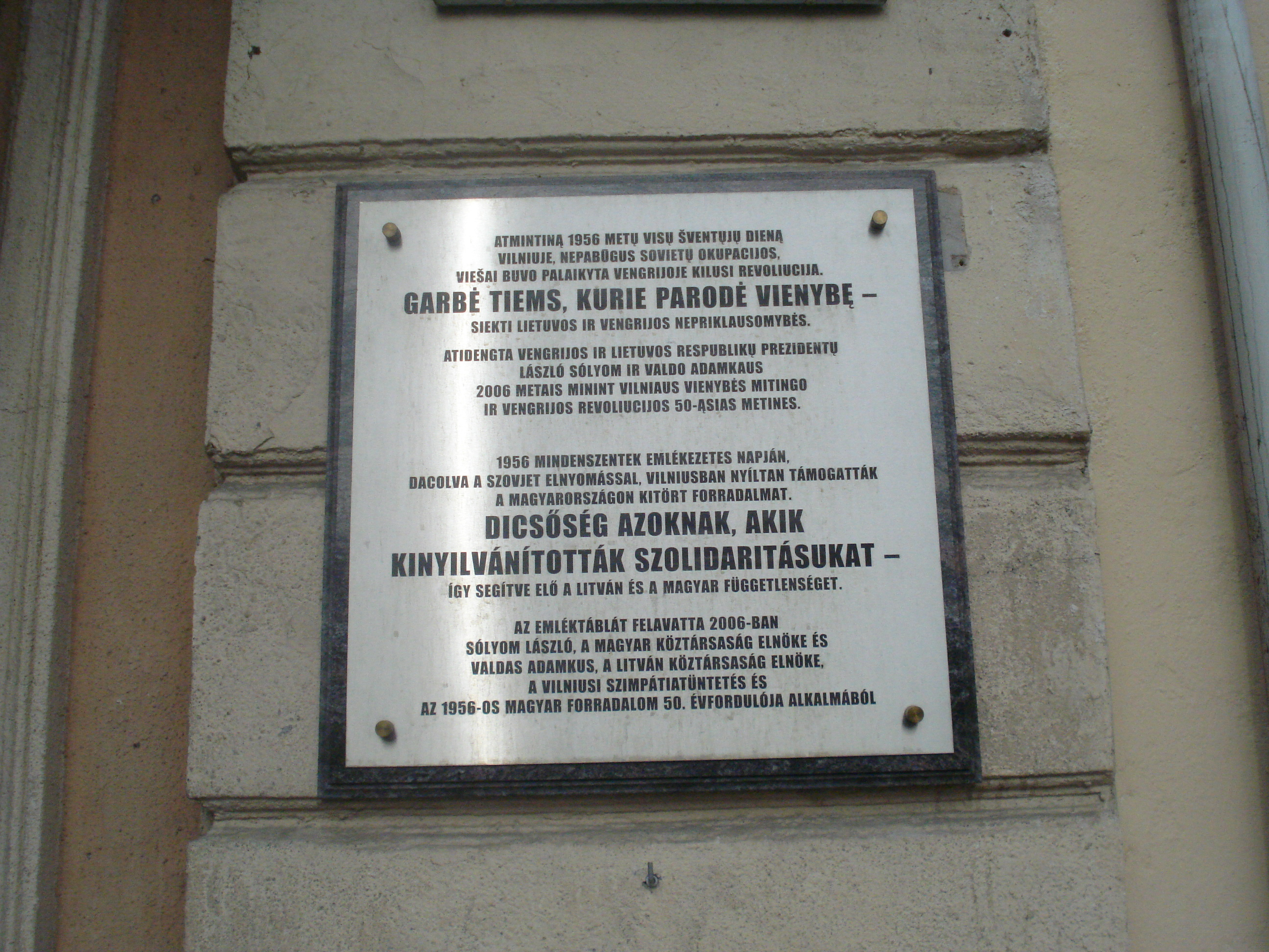 Plaque in memory of demontration of solidarity with the Hungarian Revolution (1956) in Vilnius (Bazilionų g.)